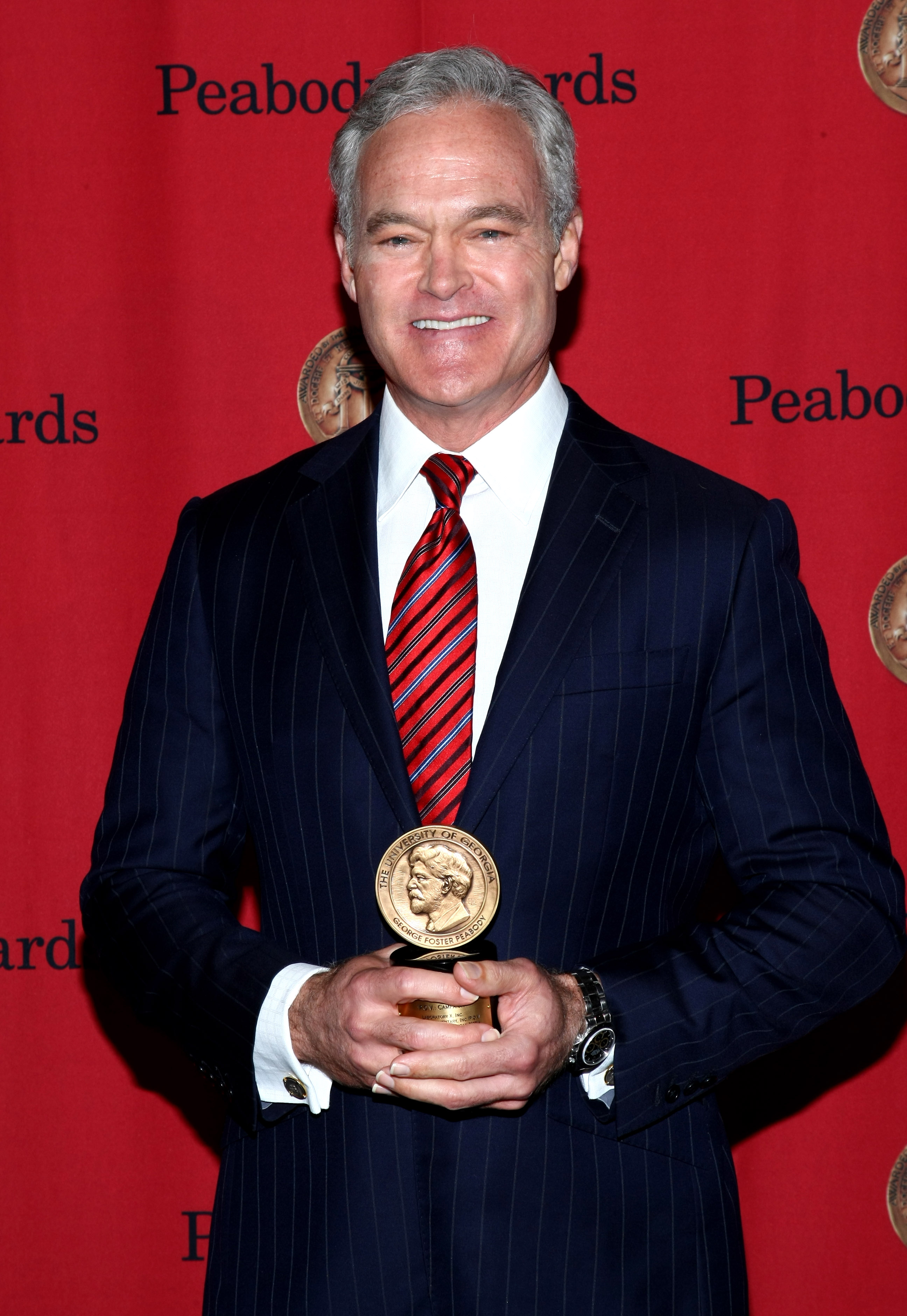 PHOTO CREDIT: ANDERS KRUSBERG / PEABODY AWARDS Scott Pelley at the 72nd Annual Peabody Awards Luncheon Waldorf-Astoria Hotel May 20, 2013